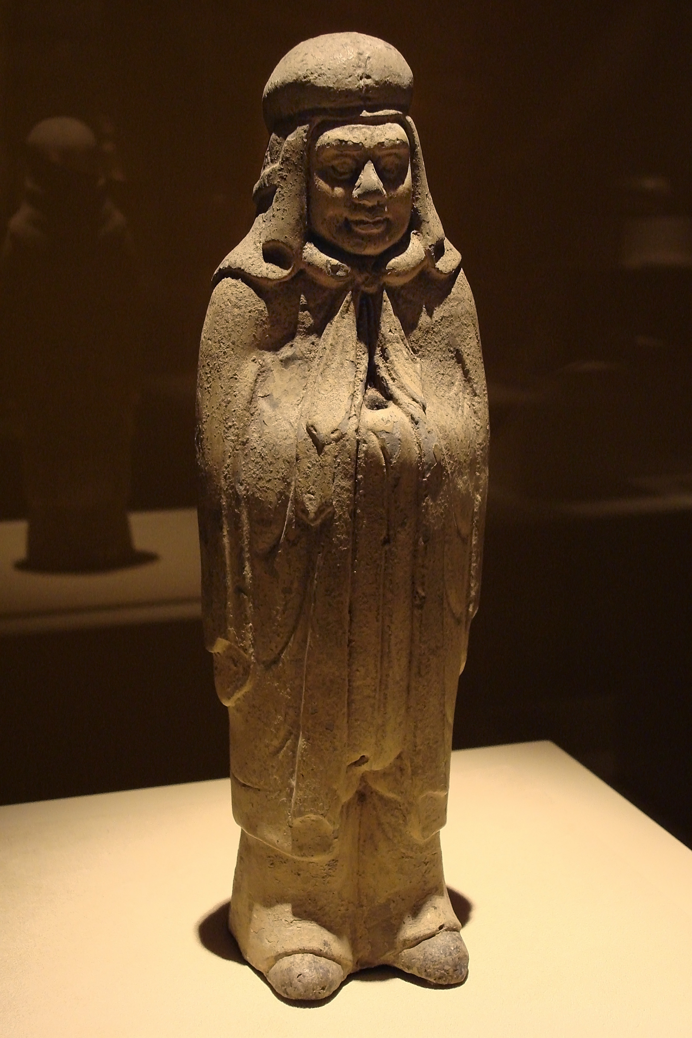 Figure of a Xianbei warrior Northern Dynasties (A.D. 286 - 581) Excavated in Jing County, Hebei Province, 1948 This figure is clad in the military uniform of the Xianbei people; with a covered "wind hat", trousers, short upper tunic and a cape tied around the neck, the outfit was designed to protect one against the wind and dust.